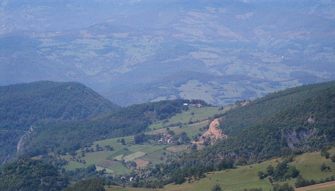 View on Donji Stranjani from Jadovnik,Prijepolje municipality,Serbia.